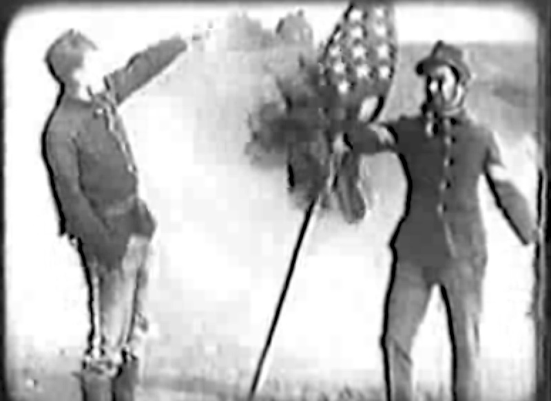 Cohen Saves the Flag is a 1913 silent film. This is a scene from the film. This image is incredably low resolution and should be replaced with a higher resolution file when one becomes available.